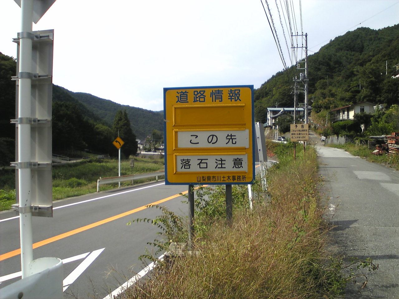 The Yamanashi Prefectural Road Route 113 in Kofu City